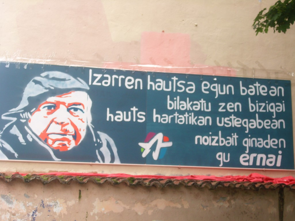 Mural in Mosku, Irun